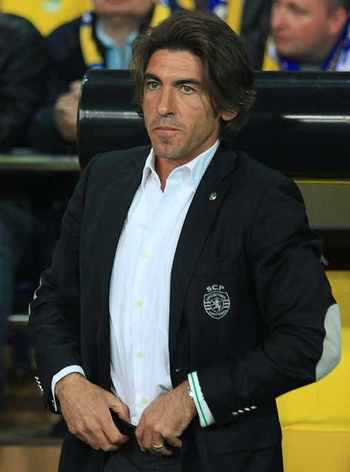 Ricardo Sá Pinto